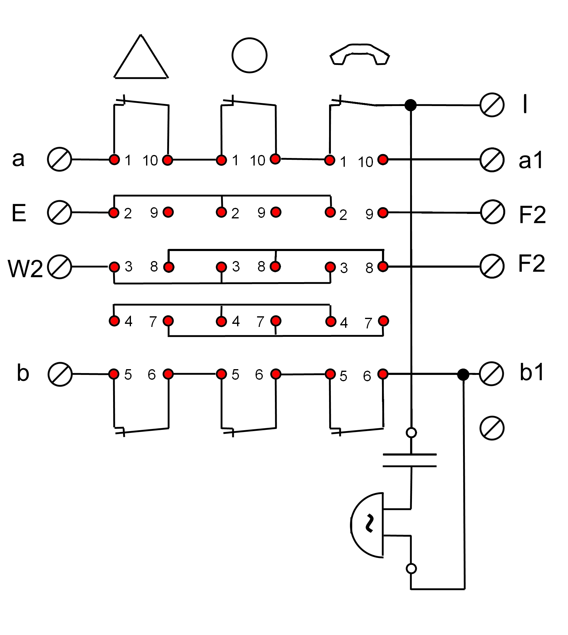 Schematics of Austrian Telephone Socket TDO